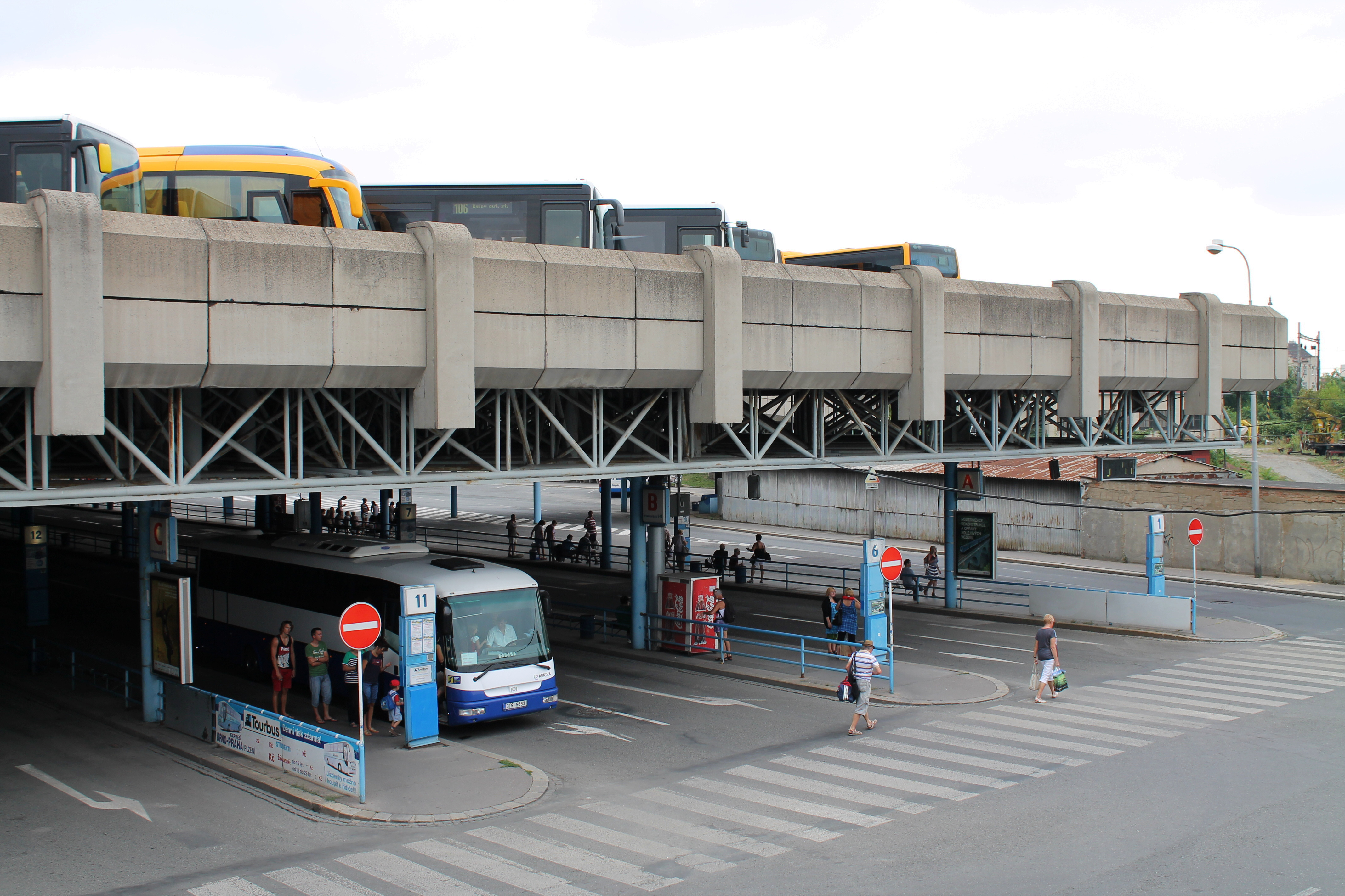 Zvonařka central bus station with SOR LH 12 bus of Arriva Morava, Brno, Czech Republic - Google Maps - Google Earth